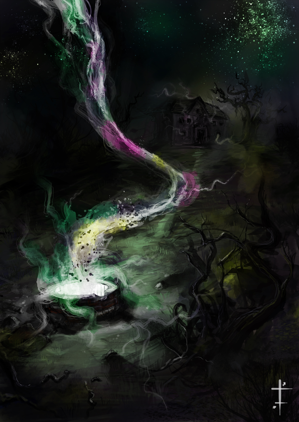 Ludvik Skopalik's artwork based on H. P. Lovecraft's short story "The Colour out of Space".